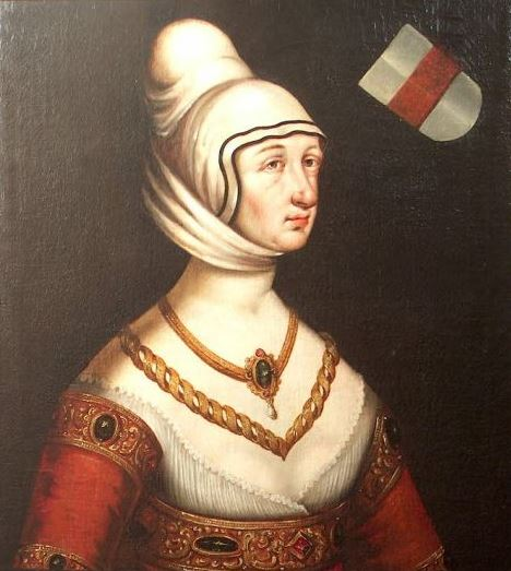 Margaret of Austria, electress of Saxony